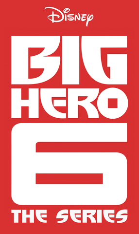 Logo of Big Hero 6: The Series